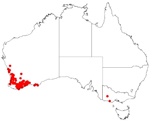 Hakea marginata Occurrence data downloaded from AVH on 22 November 2018 using